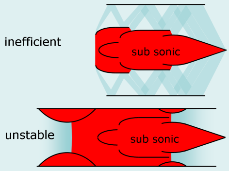 A cage around the engine reflects any shock waves. A spike behind the engine converts them into thrust.